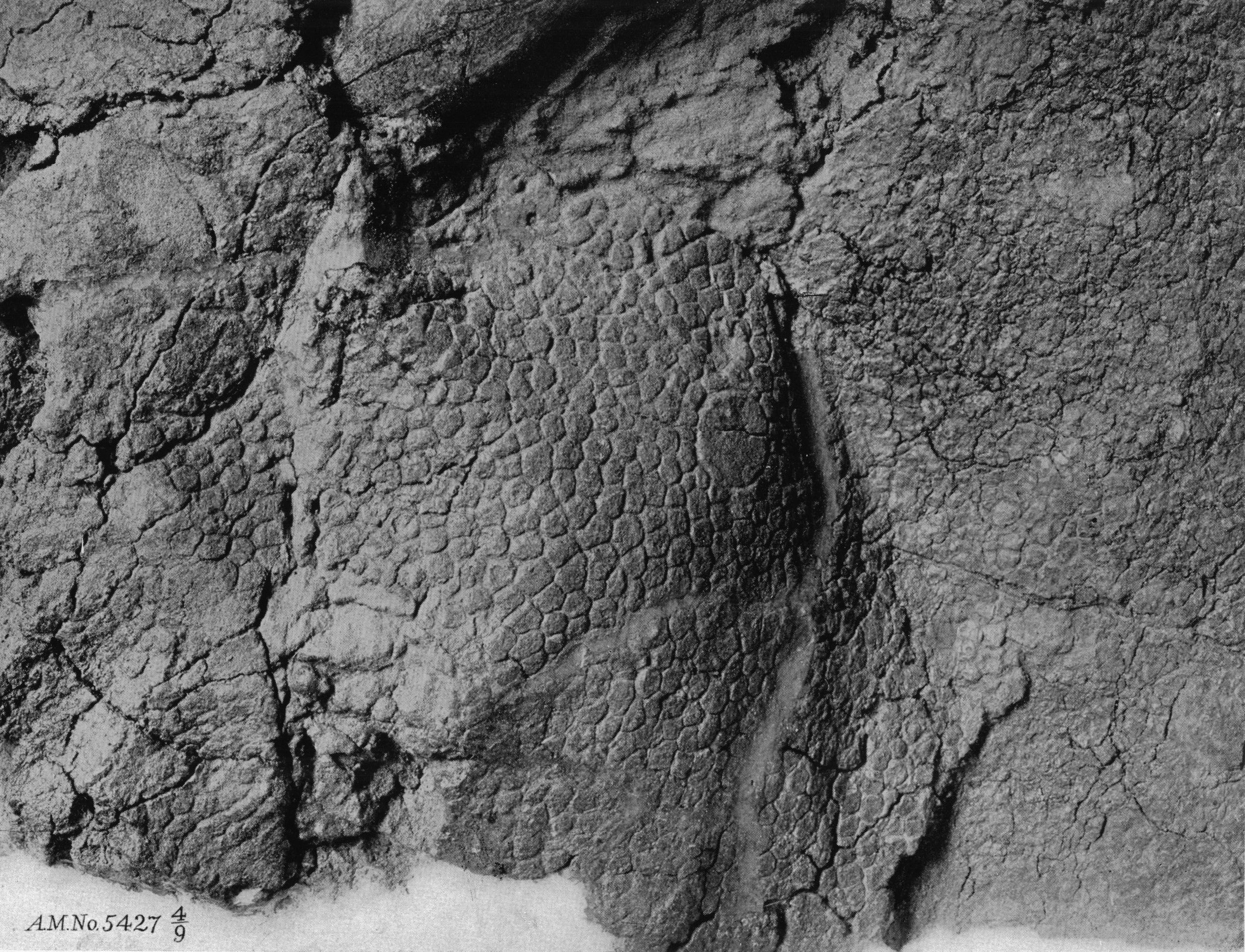 Skin impression of Centrosaurus (Monoclonius cutleri) specimen AMNH 5427.